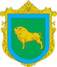 Coat of arms of Kivertsi district (Ukraine)